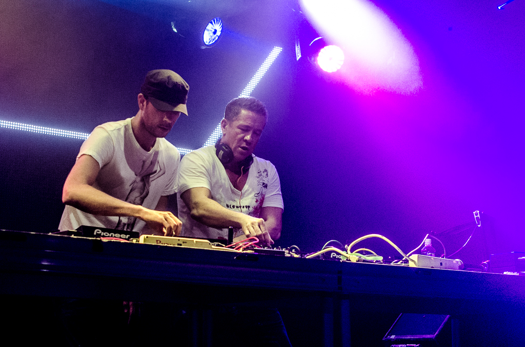 Cosmic Gate performing at the Republik in Honolulu, Hawaii. Photo by Peter Chiapperino